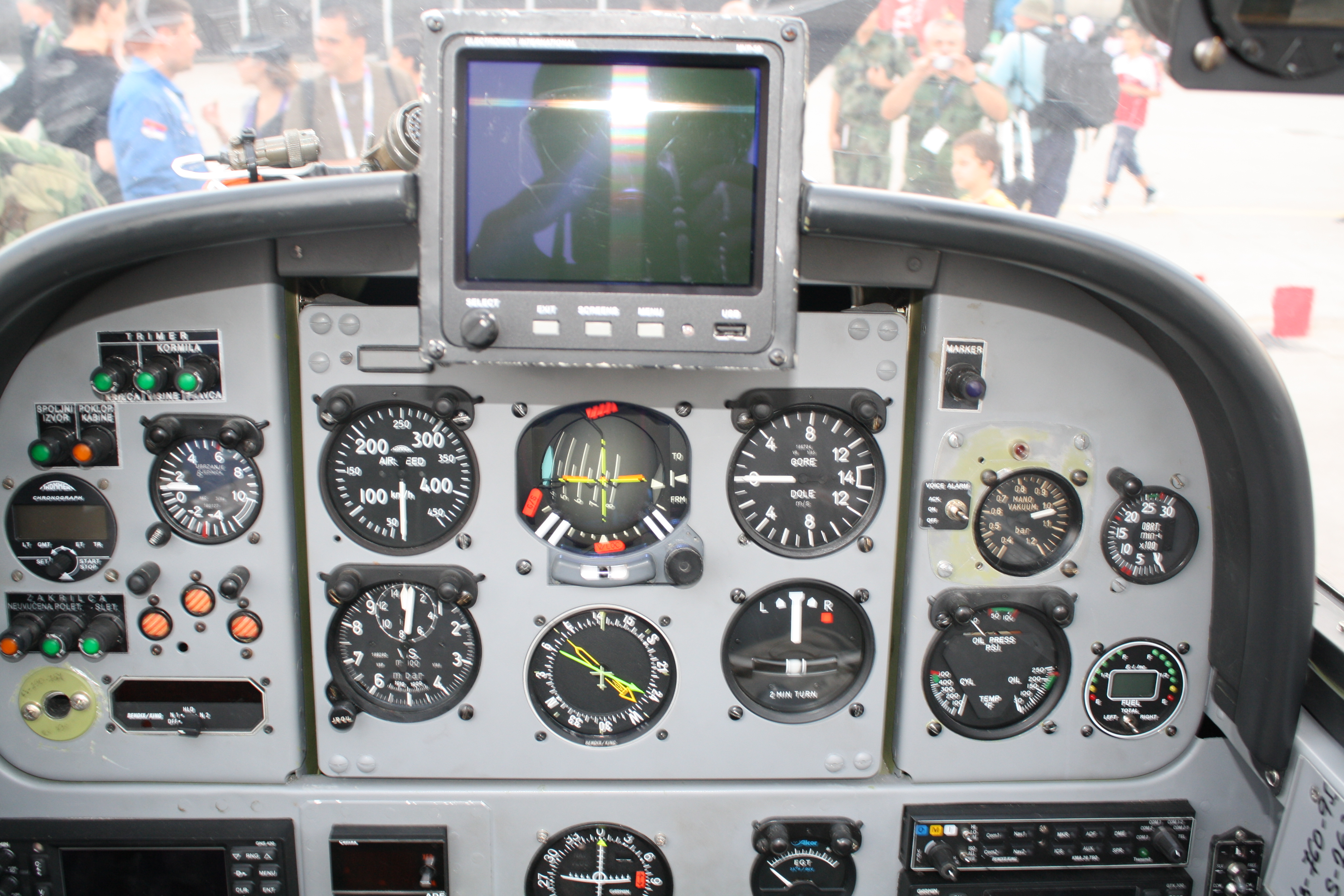 Cockpit of Lasta 95 aircraft No.54011 on display at Batajnica 2009 airshow. Кокпит авиона Ласта 95 број 54011 на аеромитингу Батајница 2009.